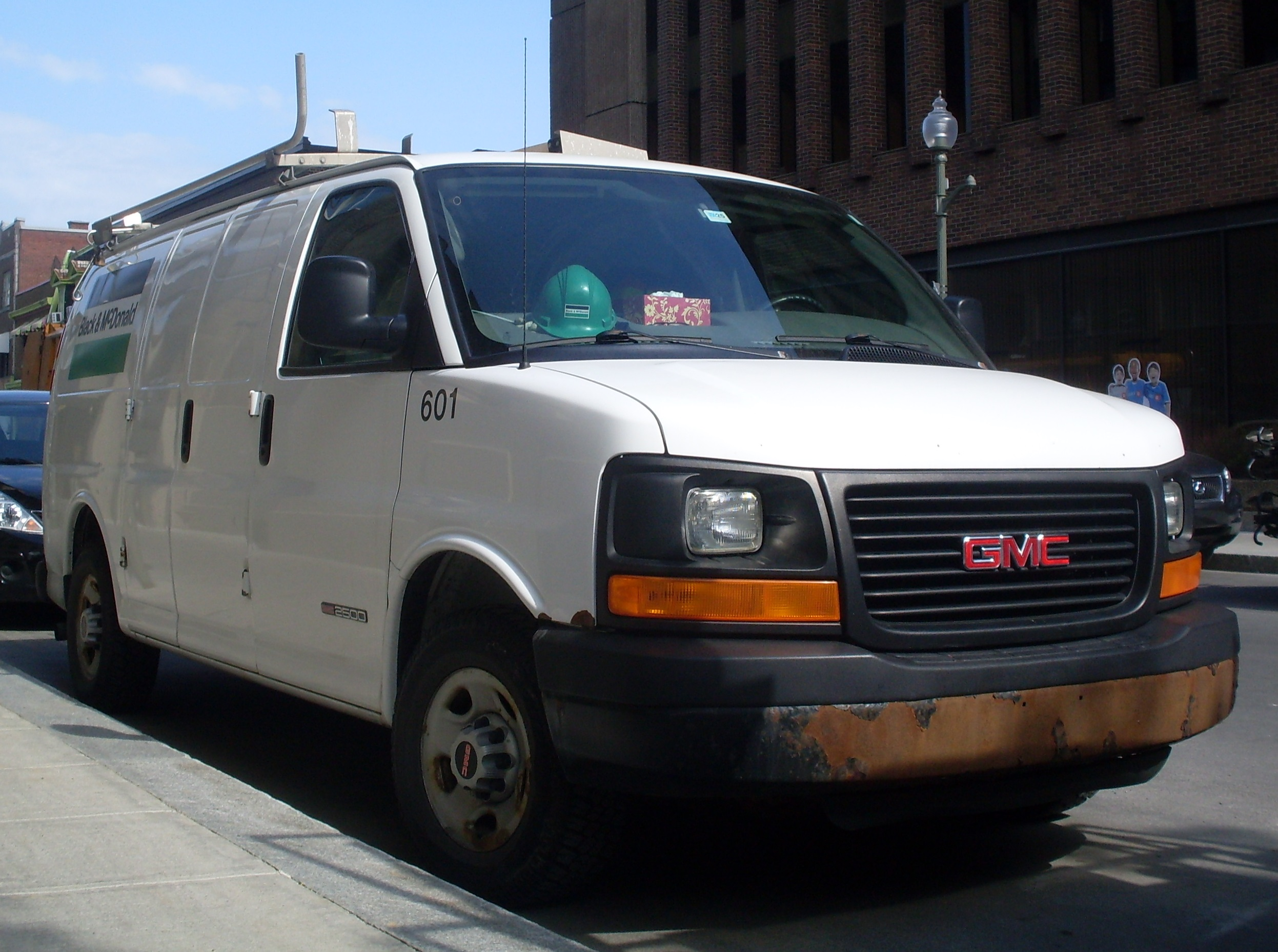 GMC Savana photographed in Westmount, Quebec, Canada.